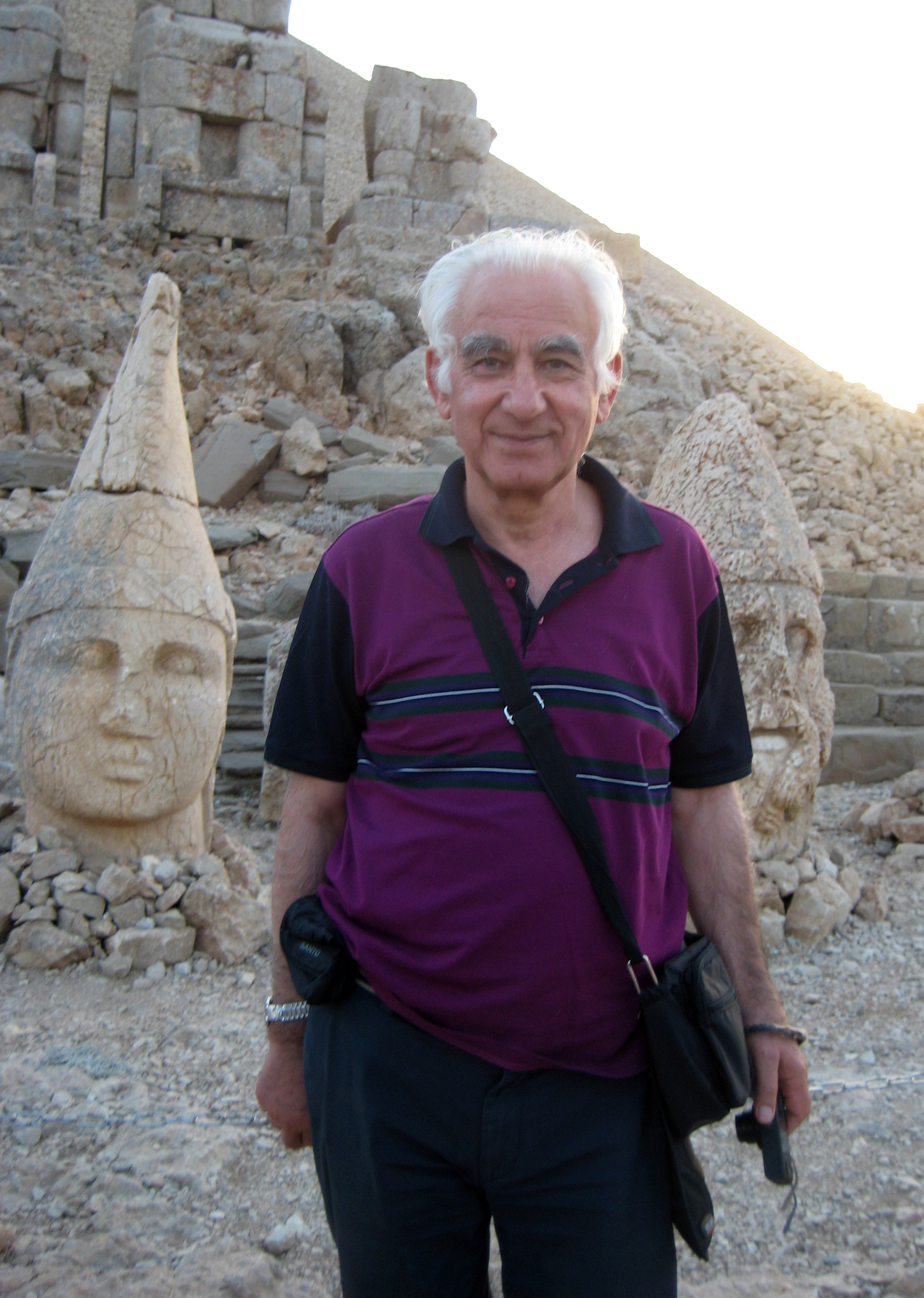 Zeki Aslan visiting Mt. Nemrut during the XVIII. National Astronomy and Space Sciences Congress.